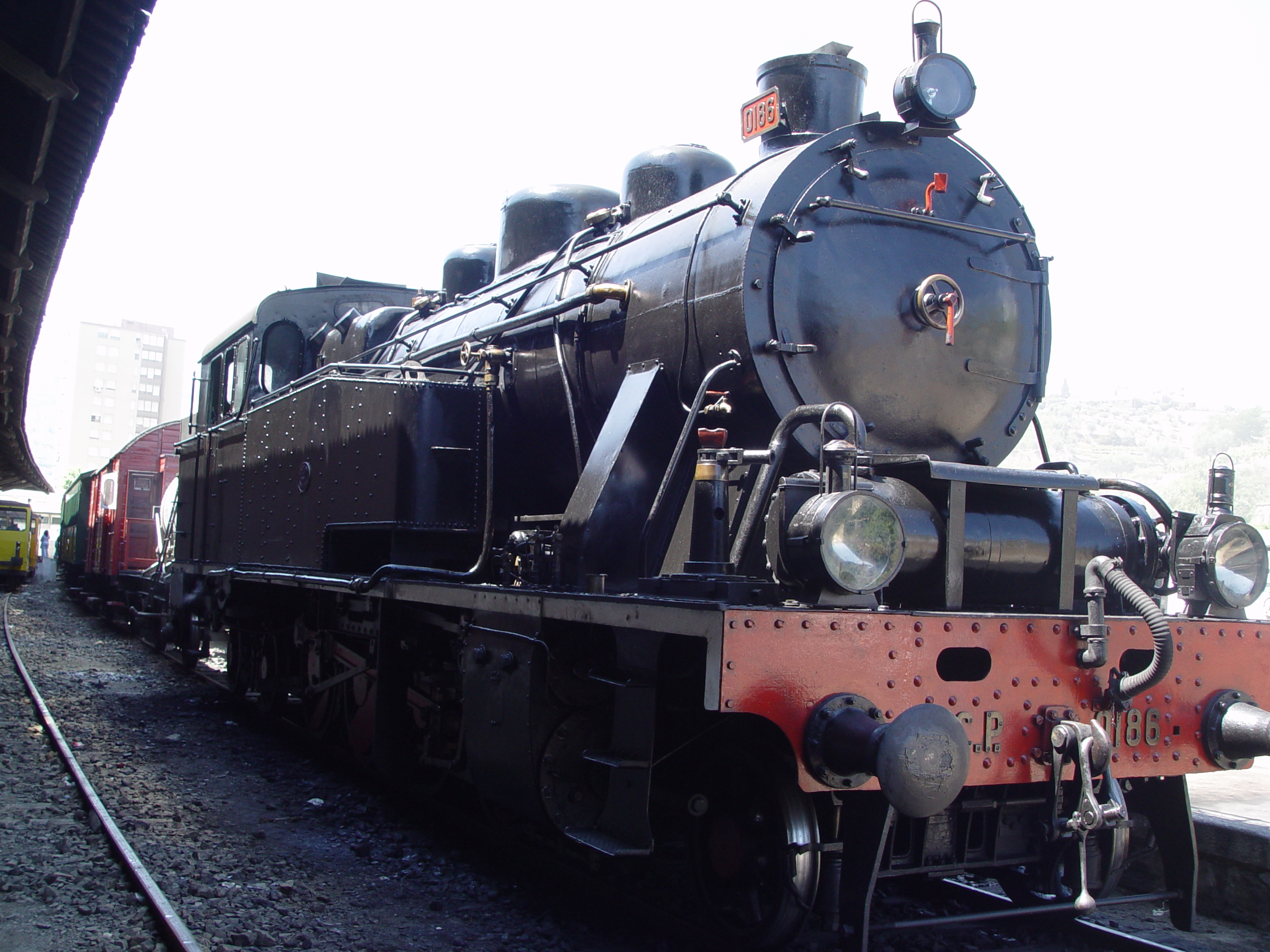 Henschel & Son locomotive in Linha do Douro, Portugal